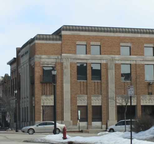 The Elkhorn Municipal Building, listed on the National Register of Historic Places.